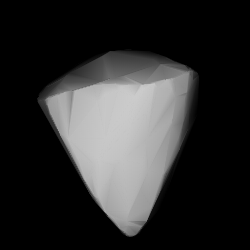 3D convex shape model of 426 Hippo, computed using light curve inversion techniques. J. Hanuš, J. Ďurech, M. Brož, B. D. Warner (June 2011). "A study of asteroid pole-latitude distribution based on an extended set of shape models derived by the lightcurve inversion method". Astronomy and Astrophysics 530: A134. ISSN 0004-6361. arXiv